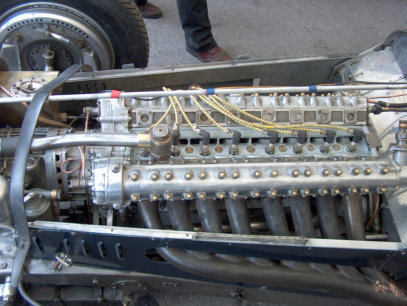 A Delage straight-8 racing engine. Picture taken at the Goodwood Festival of Speed